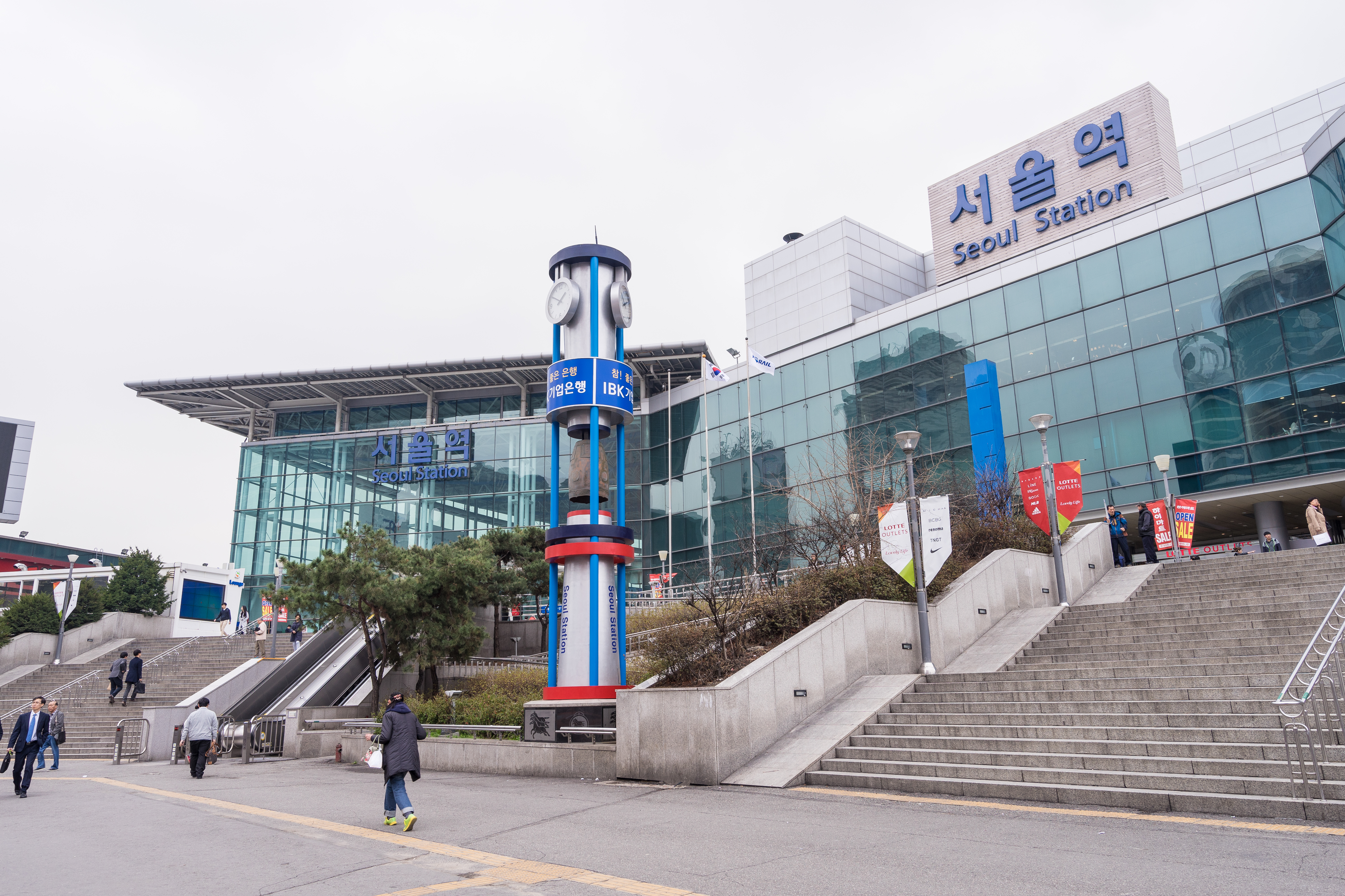 Seoul Station